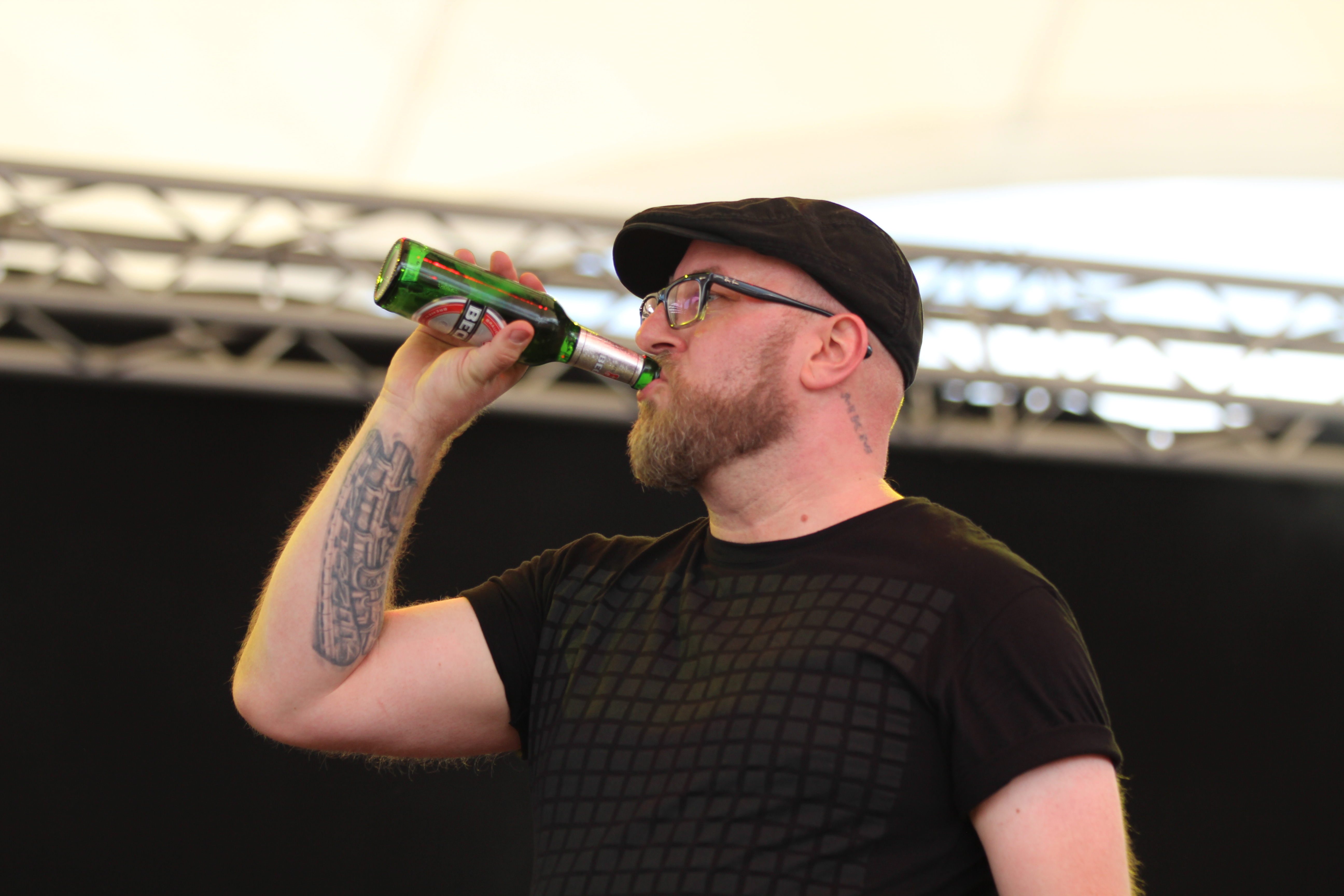 The German electro industrial band Haujobb at the Blackfield festival 2014 in Gelsenkirchen